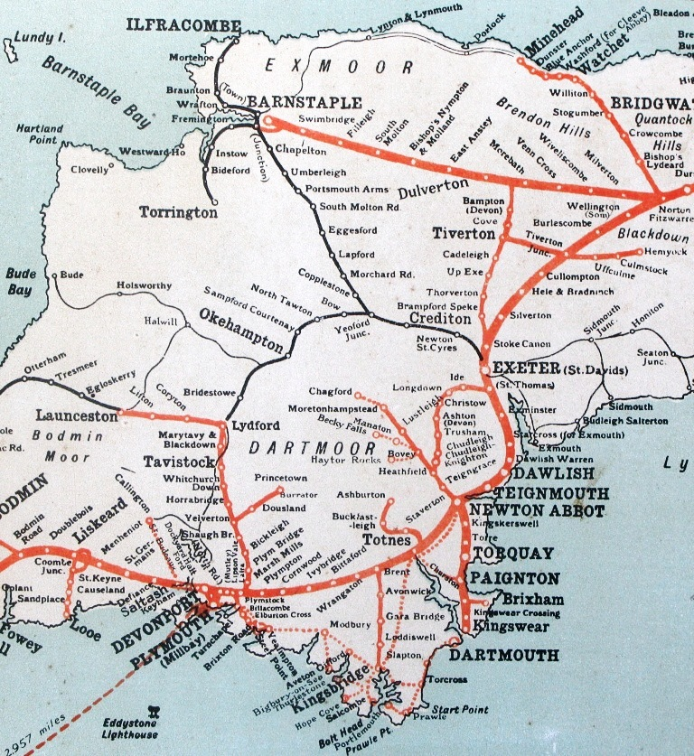 The Great Western Railway system in Devon, England.